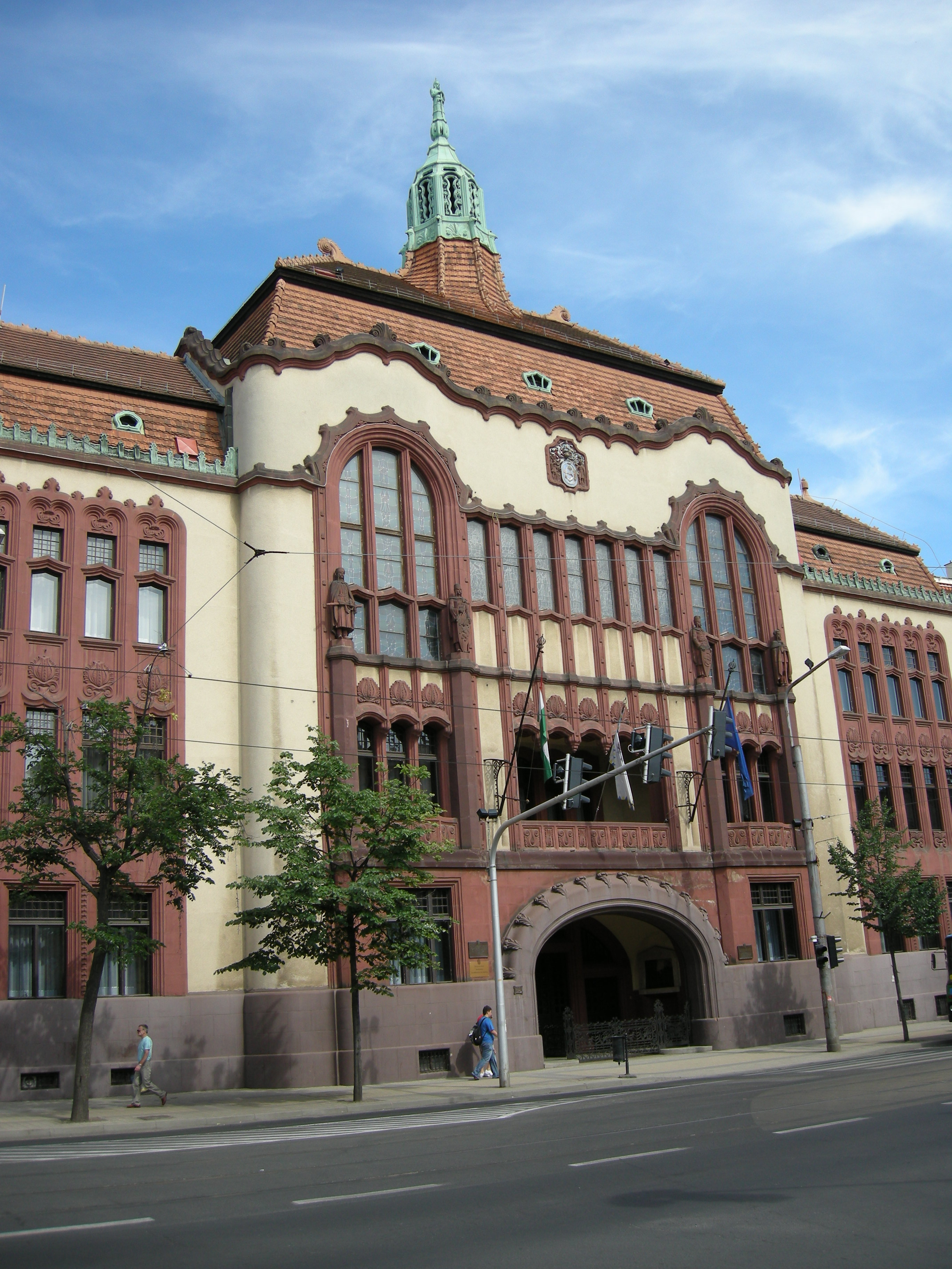 Debrecen buildings along the main road from the university to the railway station